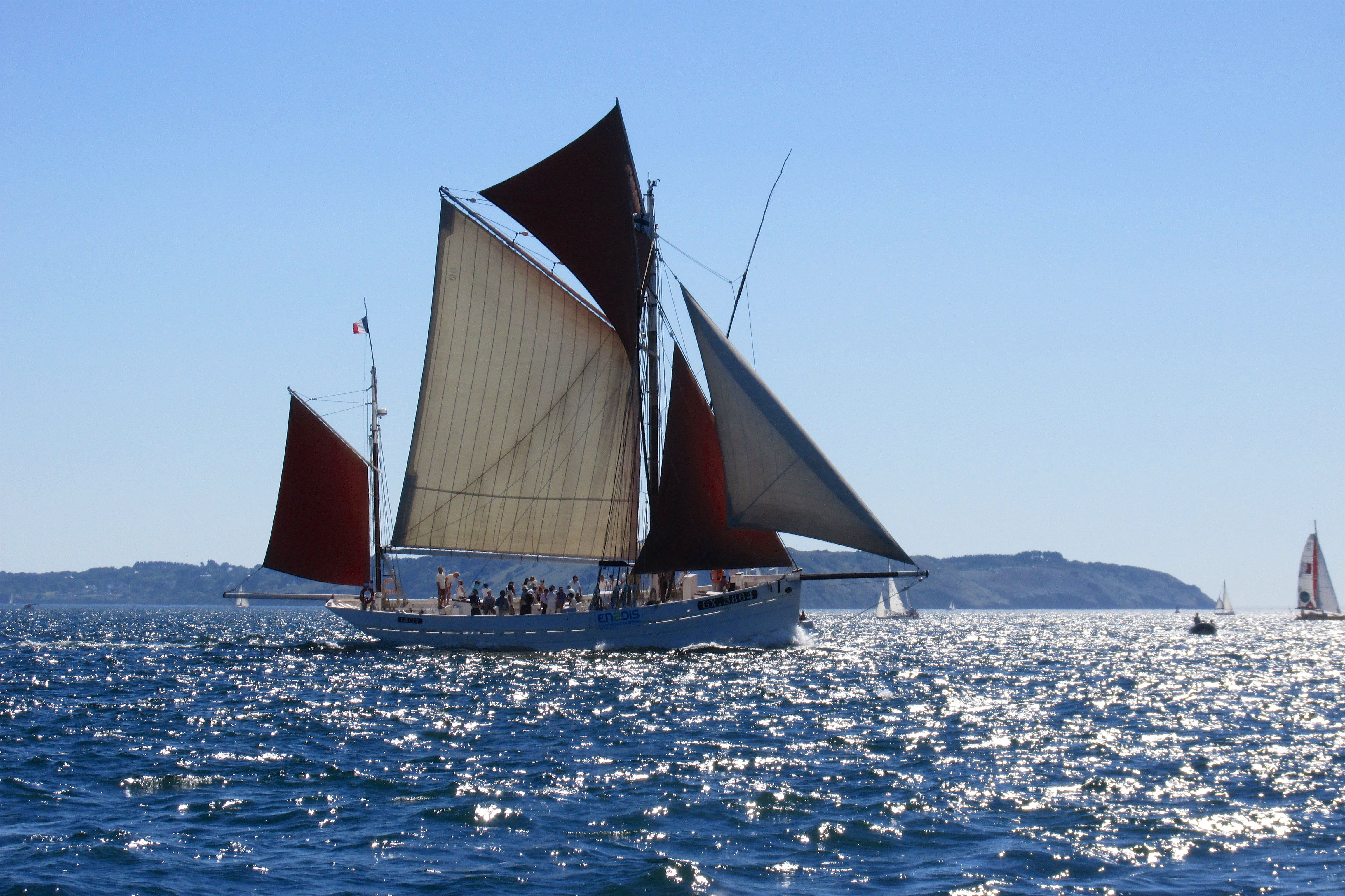 The Biche of the Ile of Groix at Brest